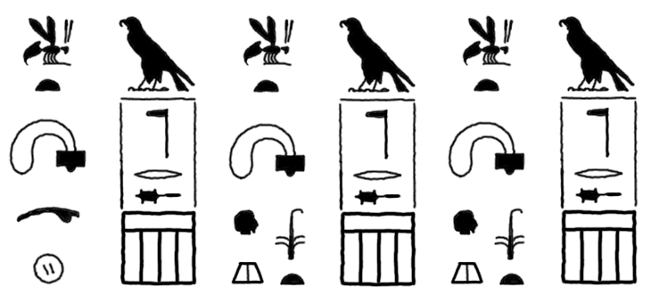 Seal of Imhotep's titles from Chamber B of the pyramid of Djoser (redrawing)